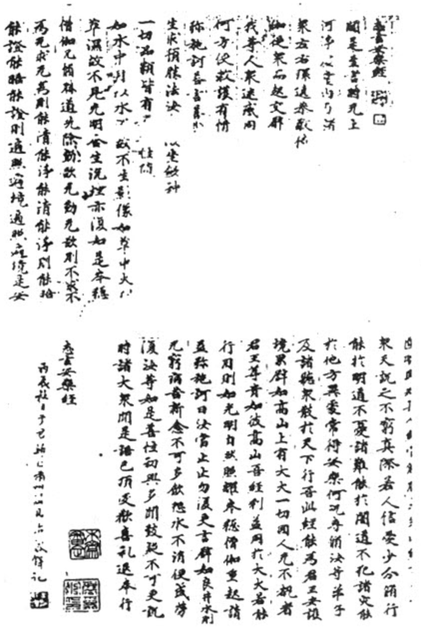 Part of the Sutra of Ultimate and Mysterious Happiness, also known as the Sutra on Mysterious Rest and Joy, is one of the Jesus Sutras belonging to the Church of the East in China; now held in Osaka, Japan, by Kyōu Shooku library, Tonkō-Hikyū Collection, manuscript no. 13.